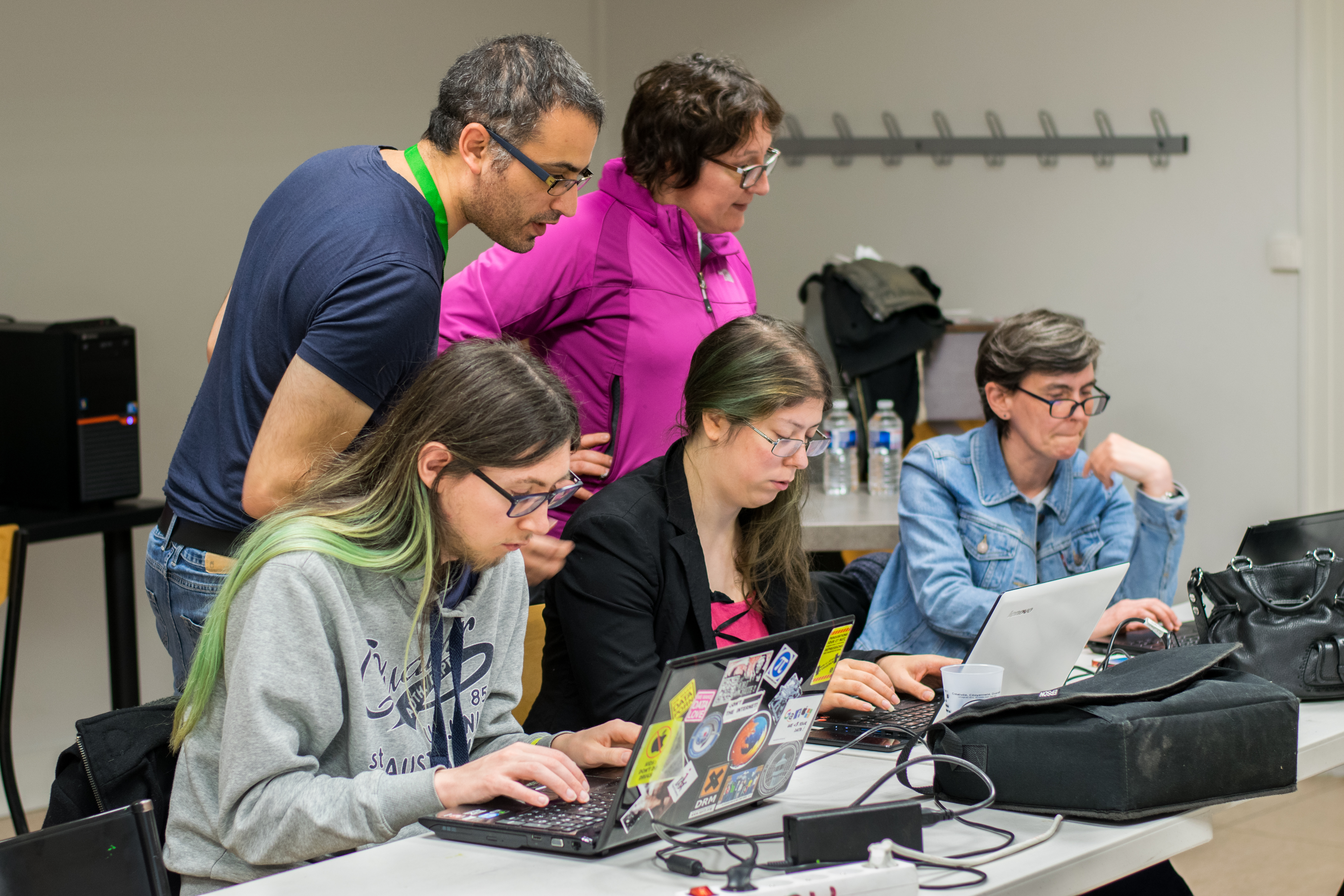 Wikipédia contributing workshop at the Journées du logiciel libre 2018 (Free software days 2018) in Lyon, France.